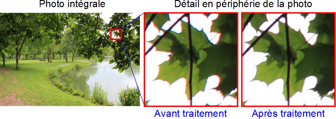 Reduction of chromatic aberration on a RAW image, with Digital Photo Professional (DPP) version 3.8 of Canon.